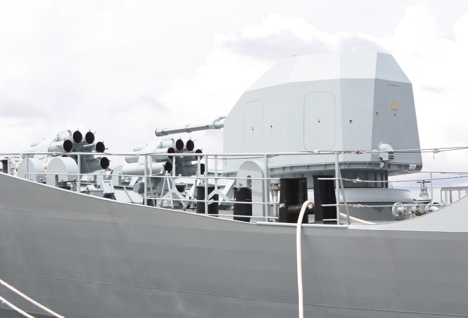 The 76 mm main gun fitted to the F-22P Zulfiquar-class frigate, PNS Zulfiquar, of the Pakistan Navy. This picture was taken during the ship's goodwill visit to Port Klang, Malaysia, in August 2009.